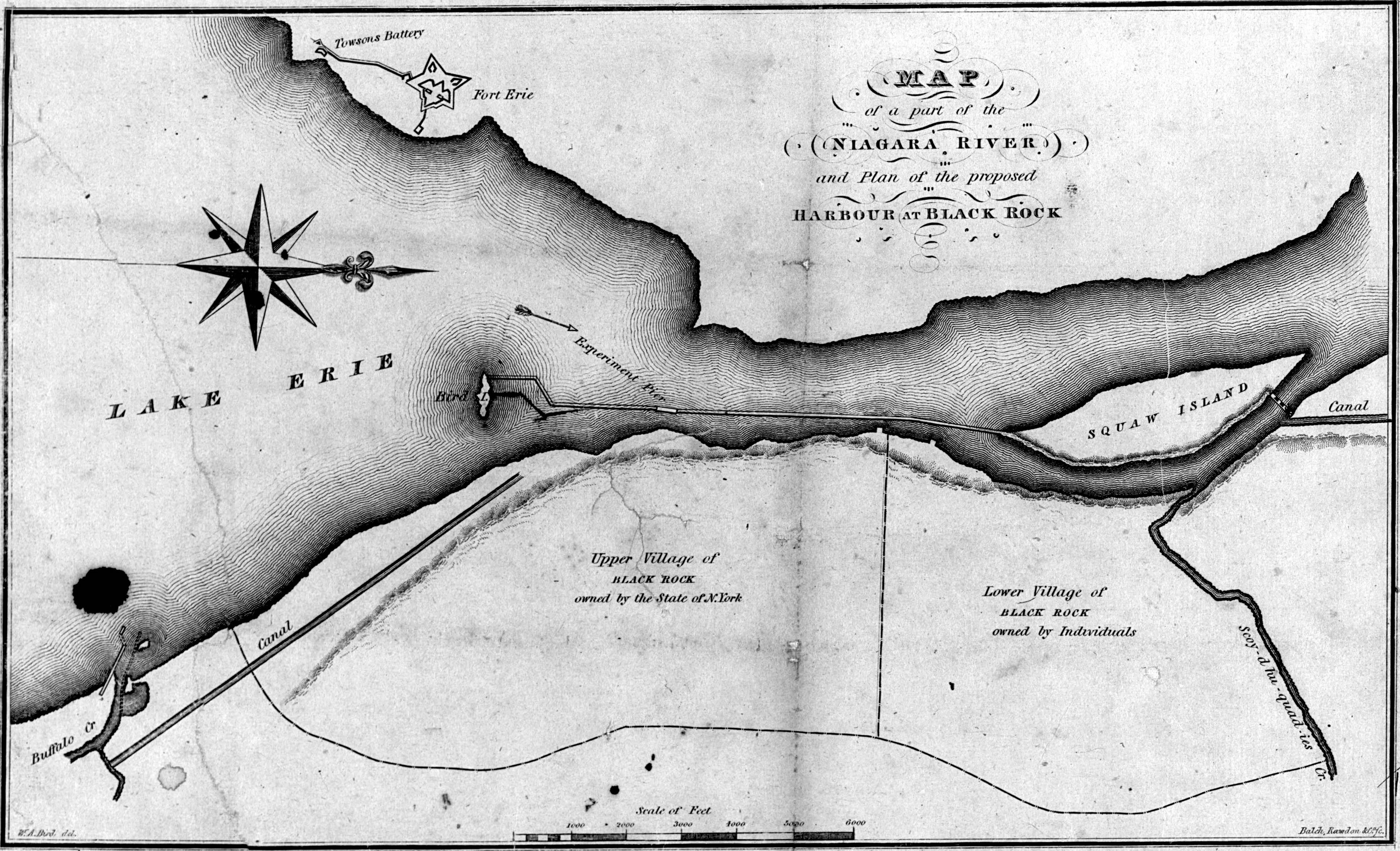 "Map of a part of the Niagara River and plan of the proposed harbour at Black Rock." Also showing Squaw Island and Bird Island.